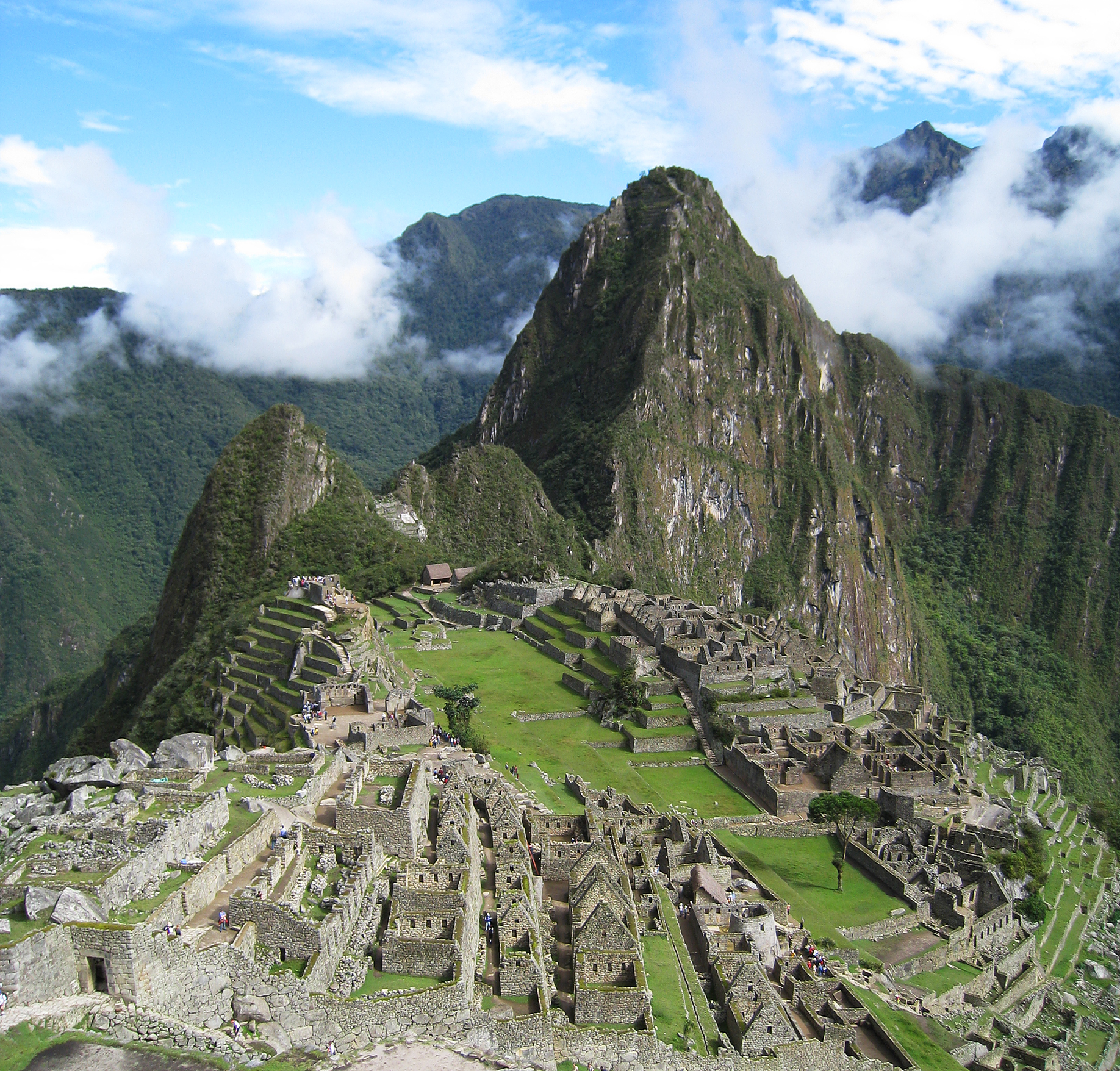 View of Machu Picchu from a short way above the site, hiking towards the Dawn Gate.